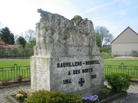 The monument aux morts at Sauvillers-Mongival